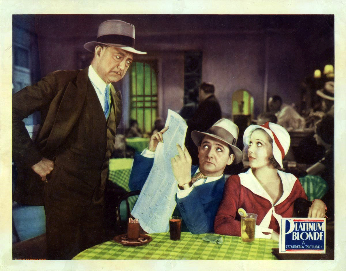 Lobby card from the American romantic comedy film Platinum Blonde (1931).